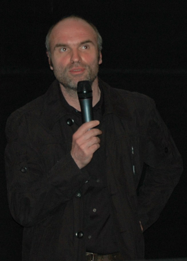 Austrian filmmaker Michael Palm at the opening of the Crossing Europe Filmfestival in Linz, Austria, 2010